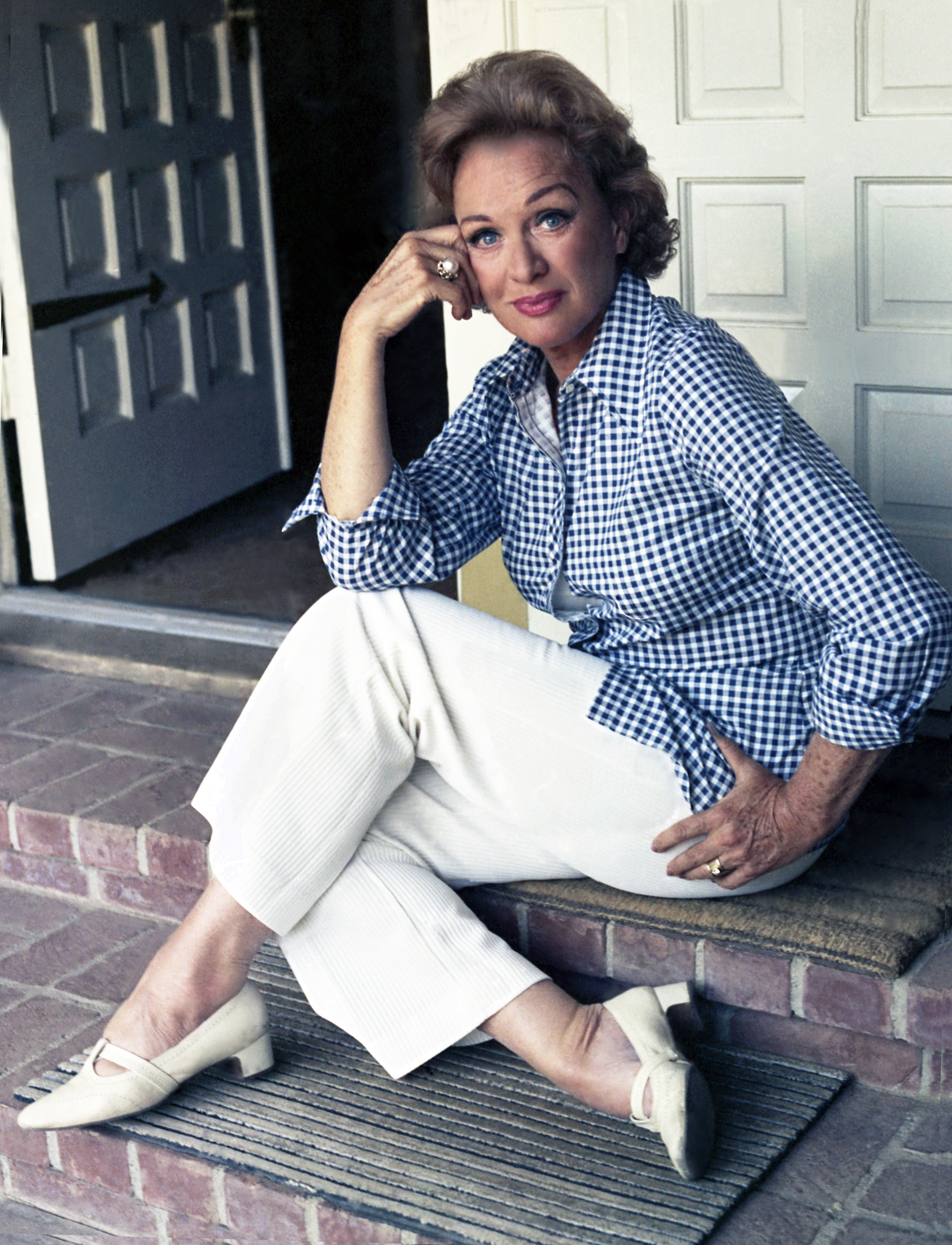 Eve Arden taken outside her home in California